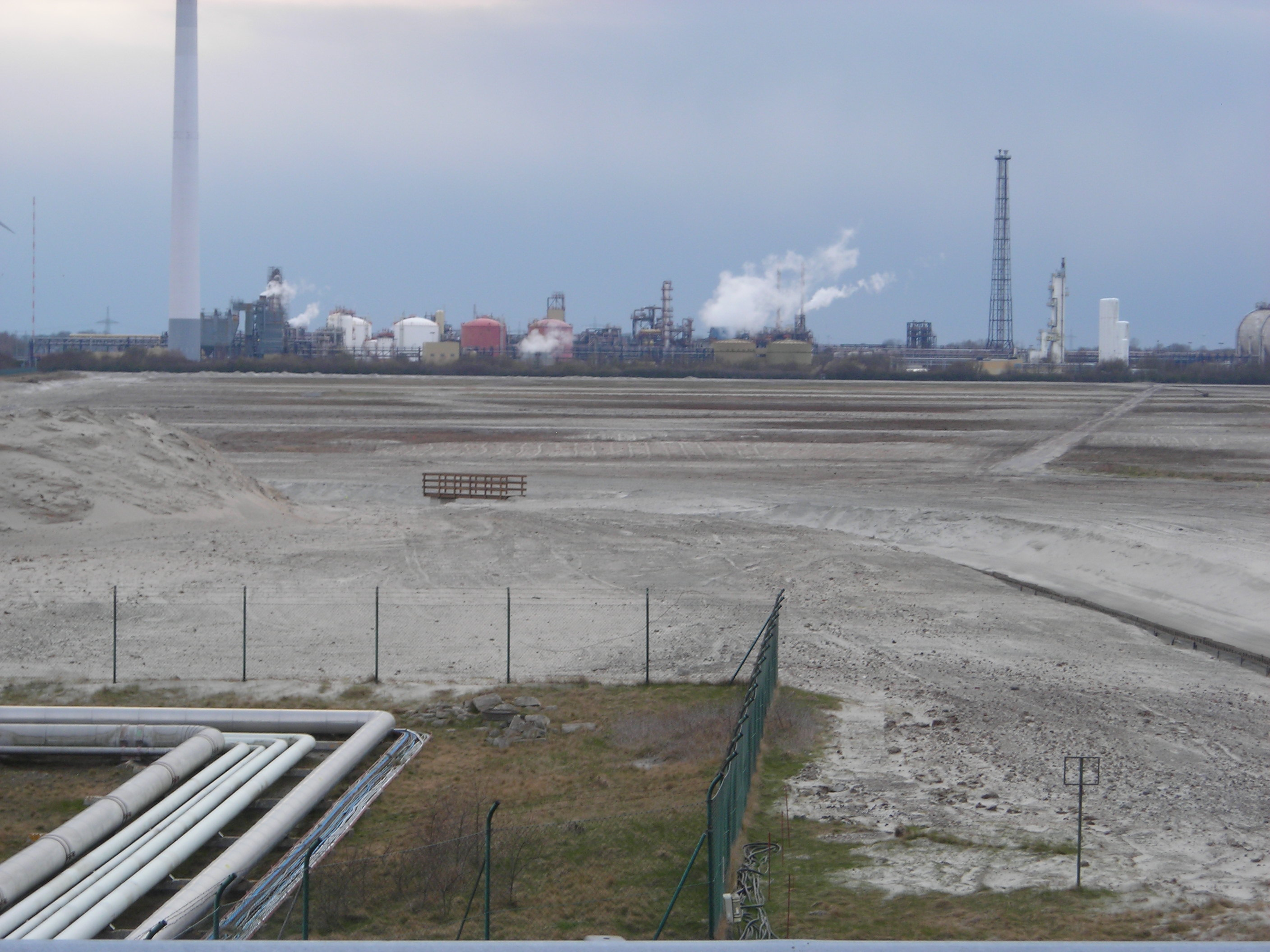 INEOS PVC factory, chemical plant at Wilhelmshaven, Germany